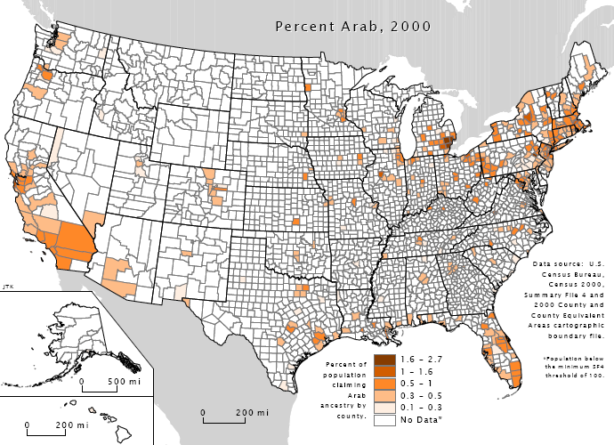 Diagram indicating Arab American settlement in the United States. Image as based on the census 2000 by the U.S. Census Bureau. Badagnani (talk) 07:53, 23 May 2009 (UTC)